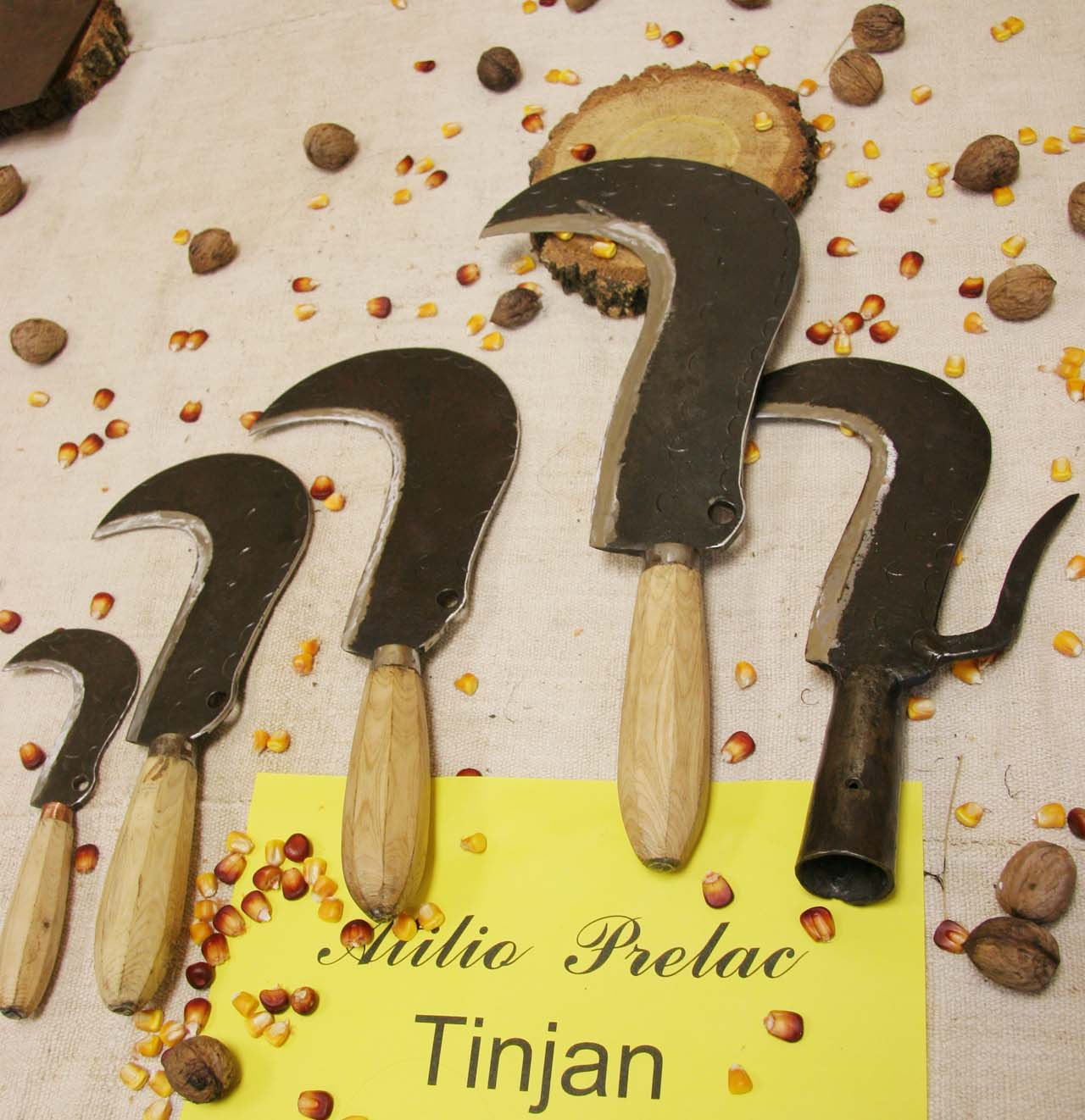 Kosirs, traditional vine knifes, Istria, Croatia.